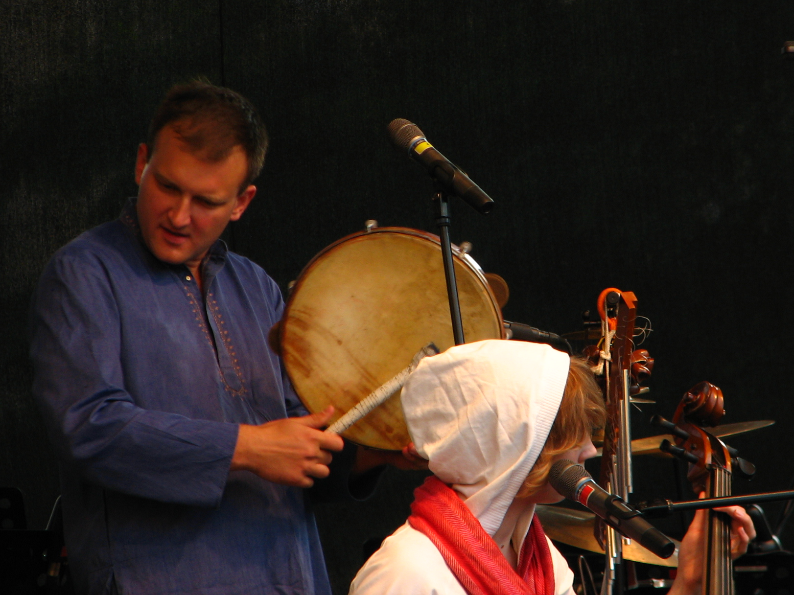 Performance of the Kapela ze Wsi Warszawa (Warsaw Village Band) at the Rozstaje festival in Krakow, members of the band: Maciej Szajkowski and Maja Kleszcz.